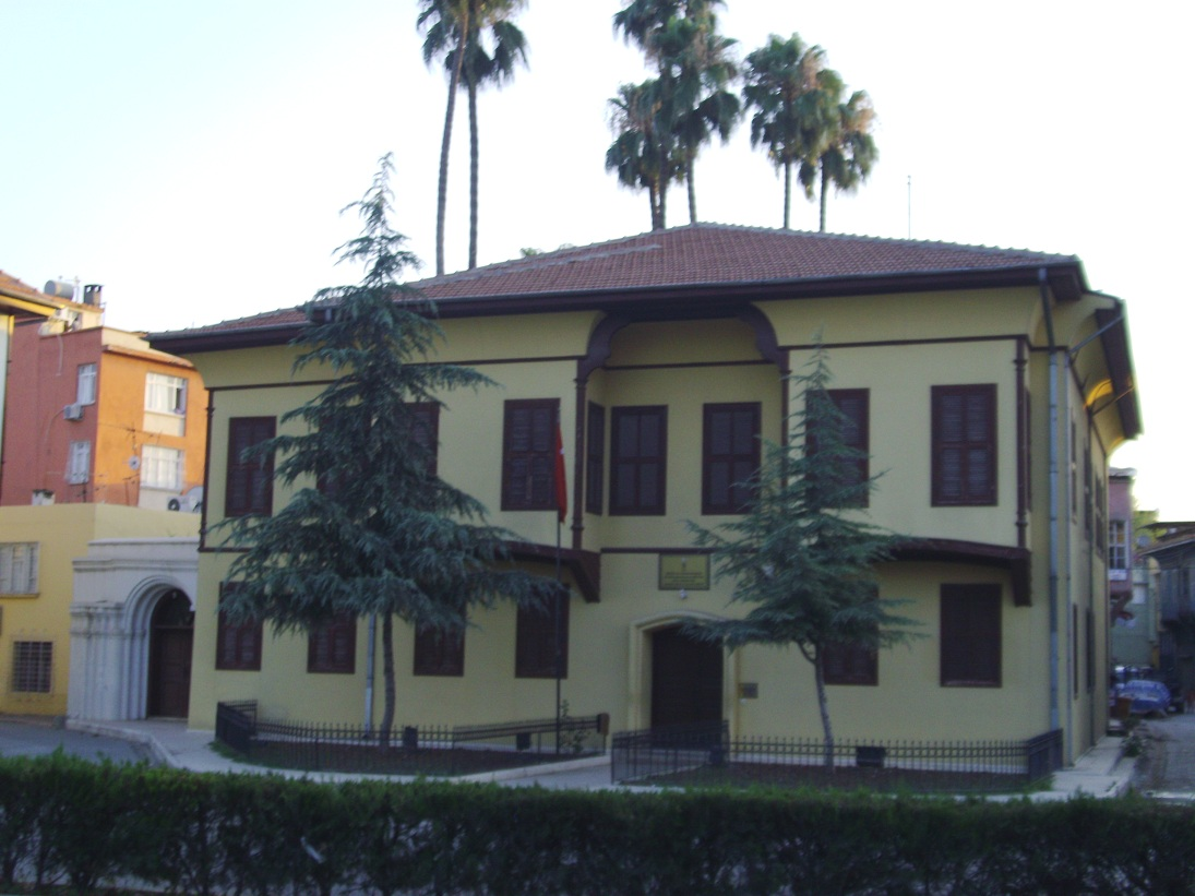 Atatürk Museum in Adana